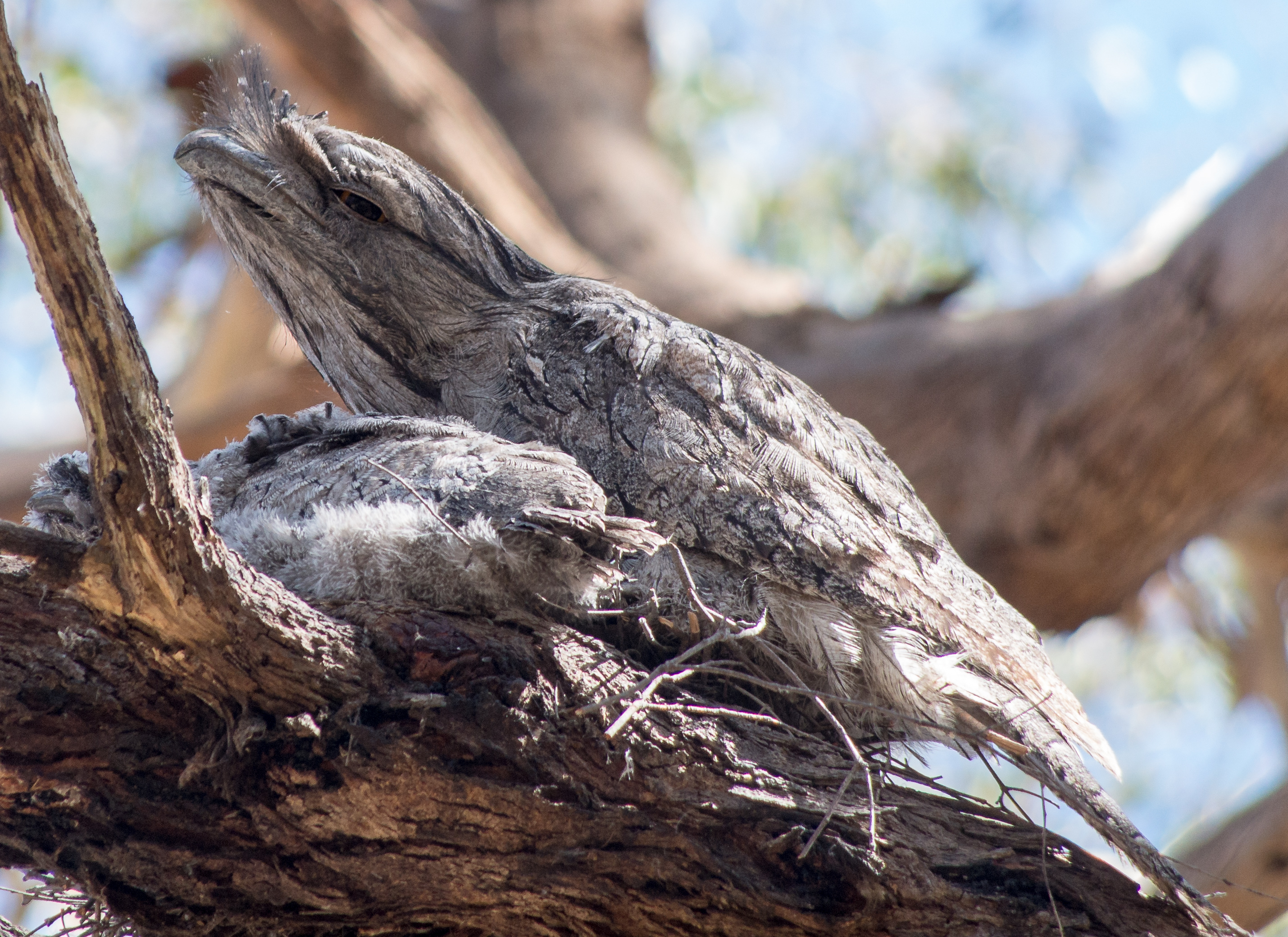 Lauriston, Portwines Road